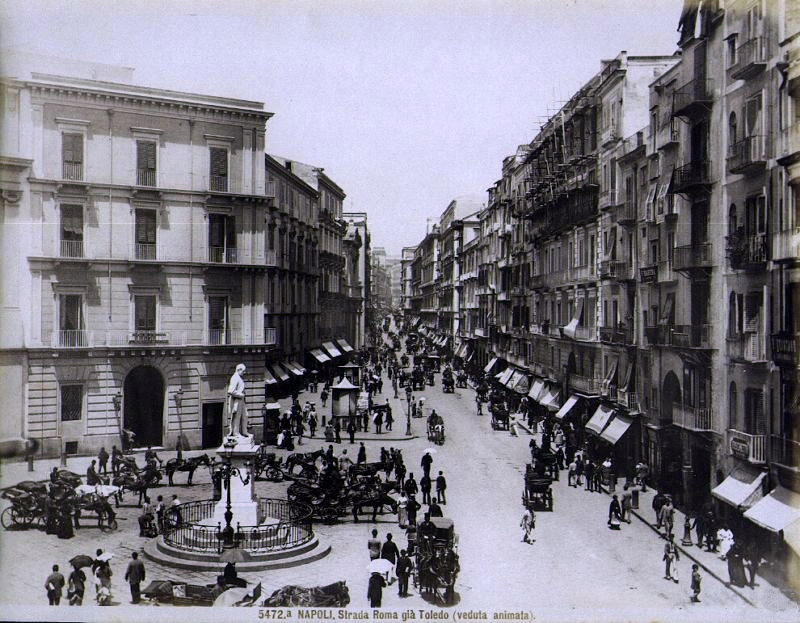 Giacomo Brogi (1822-1881) - "Naples - Strada Roma, formerly Toledo (crowded view)". Catalogue # 5472a.